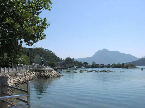 (A＝大美督 B＝tksteven自行拍攝 C＝2004.2 D＝tksteven E＝ This work has been released into the public domain by its author, tksteven. This applies worldwide. In some countries this may not be legally possible; if so: tksteven grants anyone the right to use this work for any purpose, without any conditions, unless such conditions are required by law. F＝)